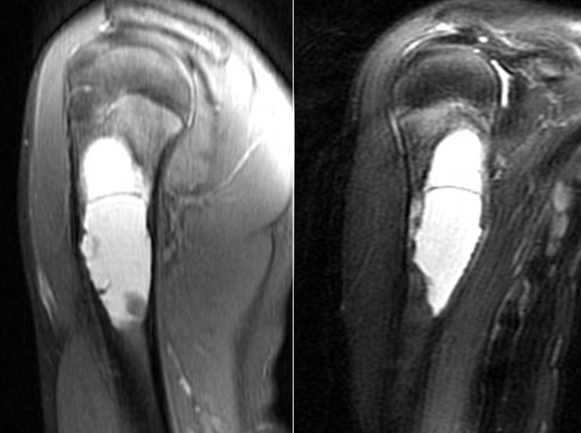 T2-weighted sagittal MRI depicting of the lesion of the bone cyst of the proximal humeral in 13 year old boy.